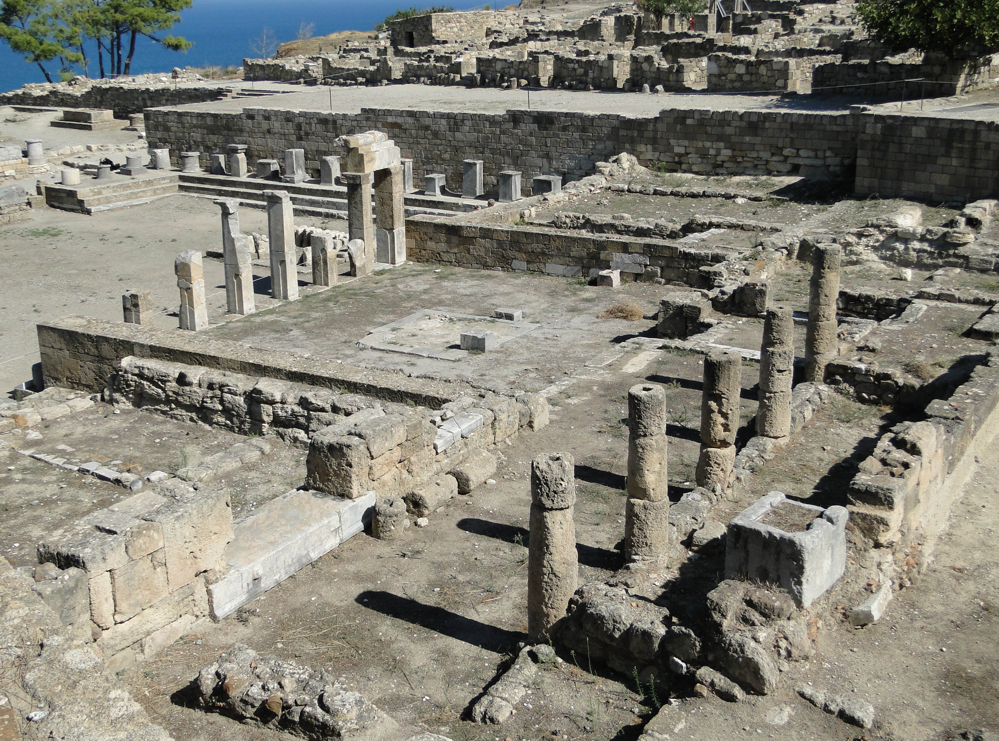 Fountain square in the site of Kameiros, Rhodes, Greece